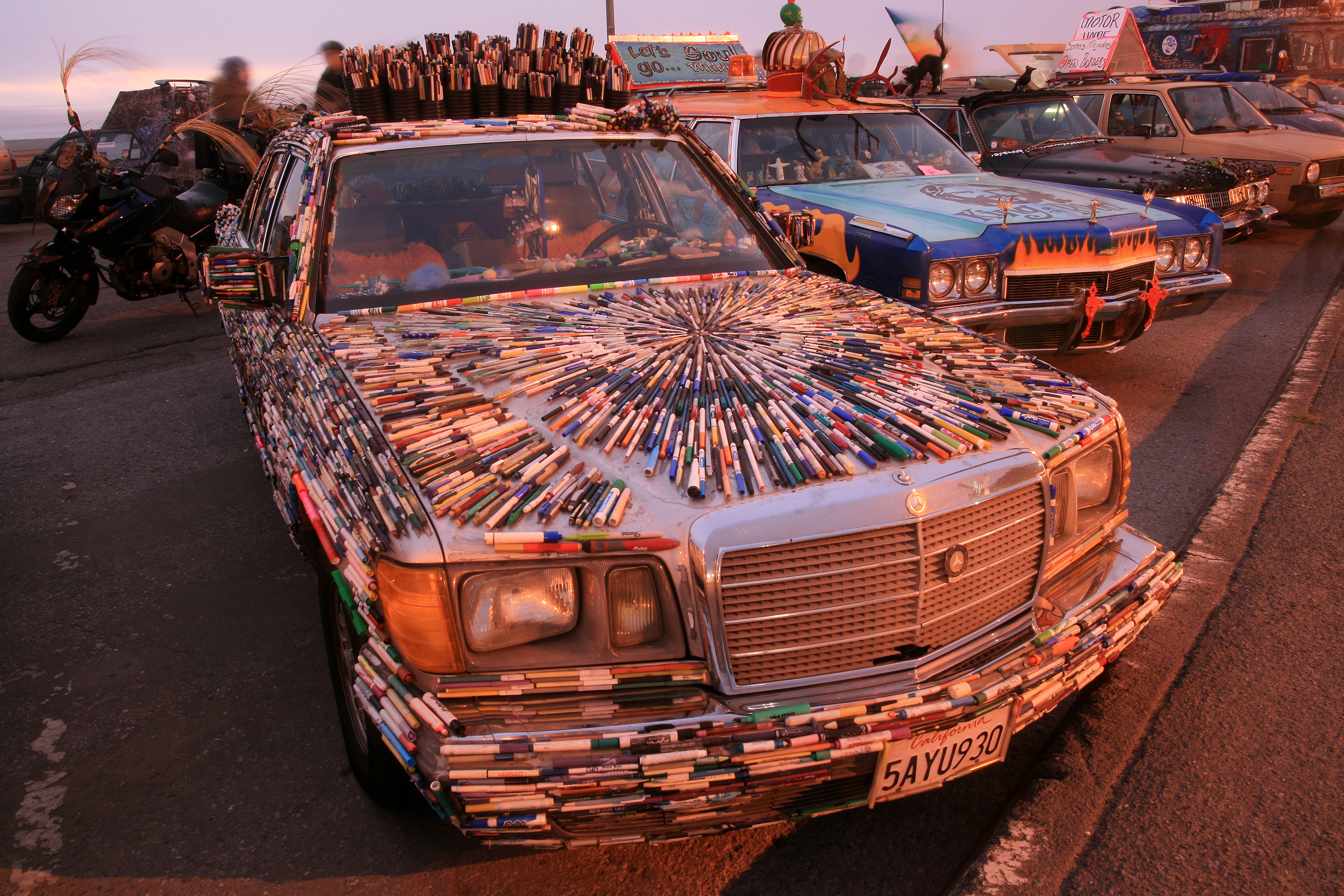 Mercedes Pens Art Car - Artcarfest in San Francisco